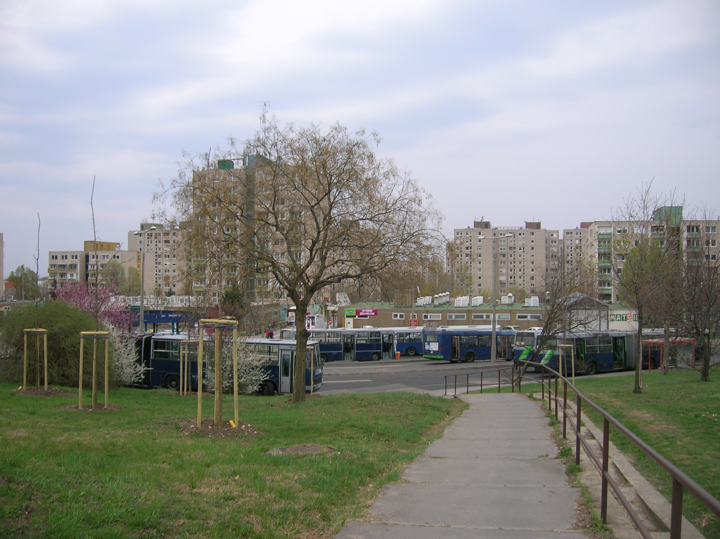 Gazdagrét housing estate in Budapest, Hungary. View from Gazdagrét Square bus station.